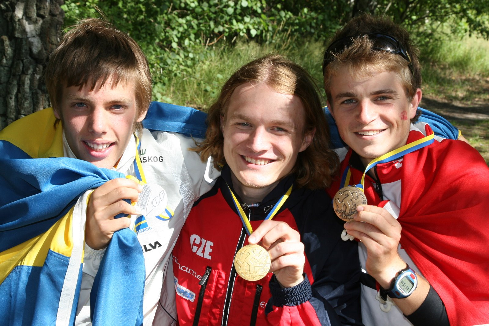 JWOC 2008. Winners of the sprint. Stepan Kodeda (gold), Johan Runesson (silver) and Sören Bobach